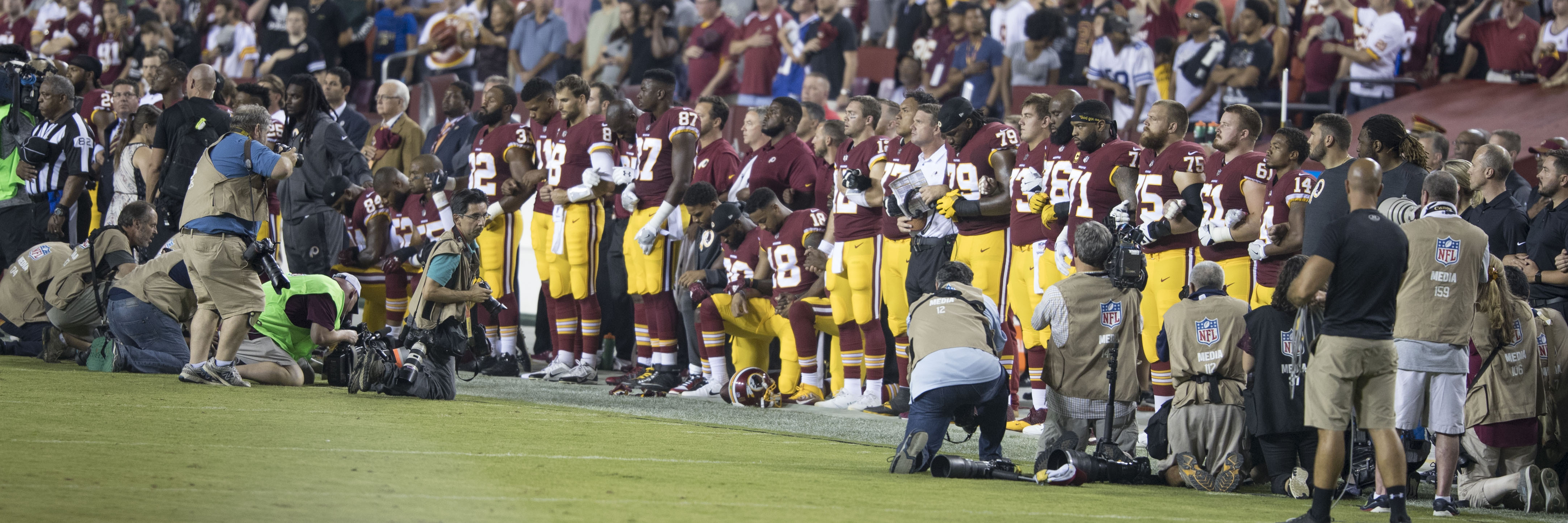 Washington Redskins teammates during the national anthem before a game against the Oakland Raiders at FedExField on September 24, 2017 in Landover, Maryland.